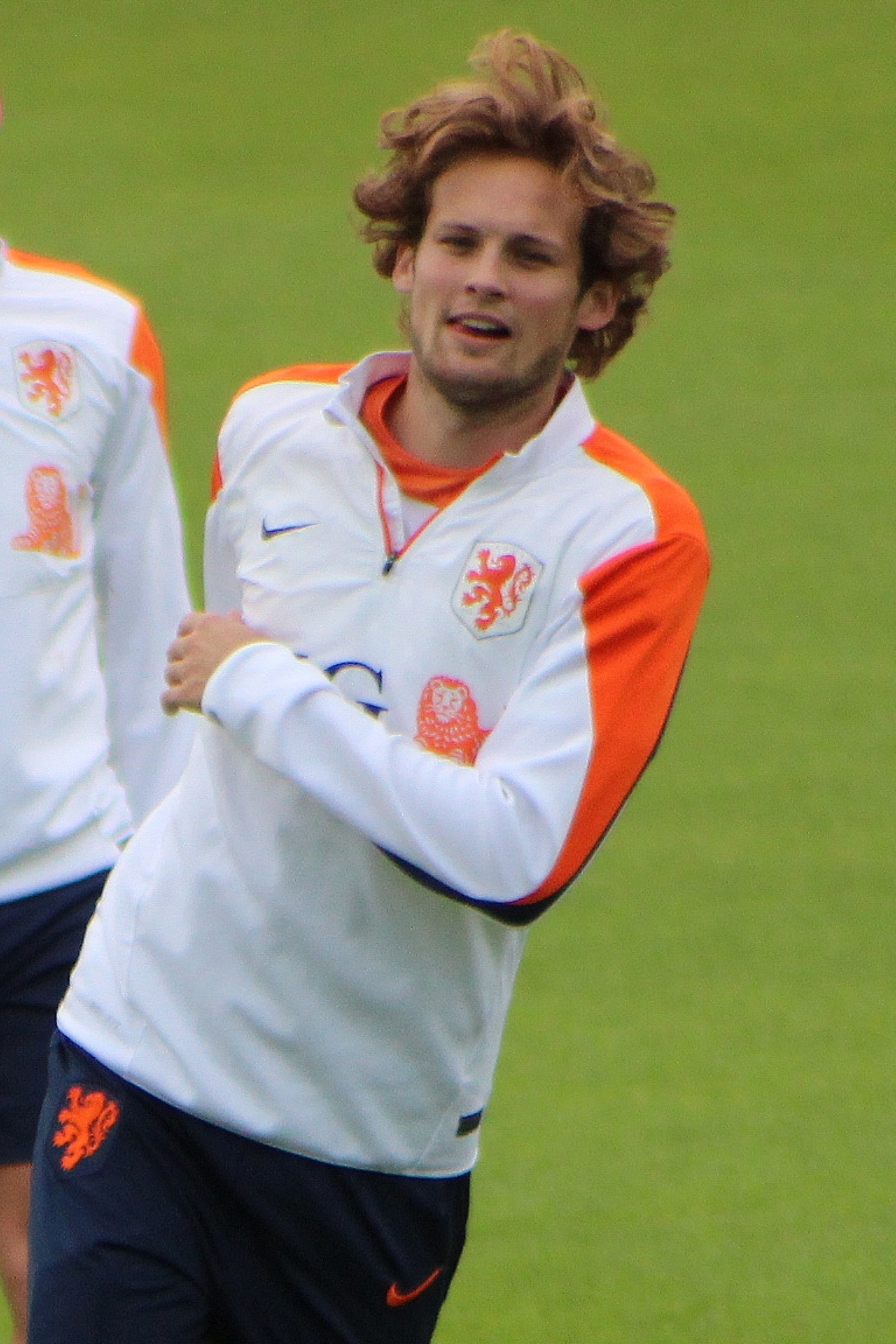 Cropped version of Sneijder_Blind_(15300328879).jpg